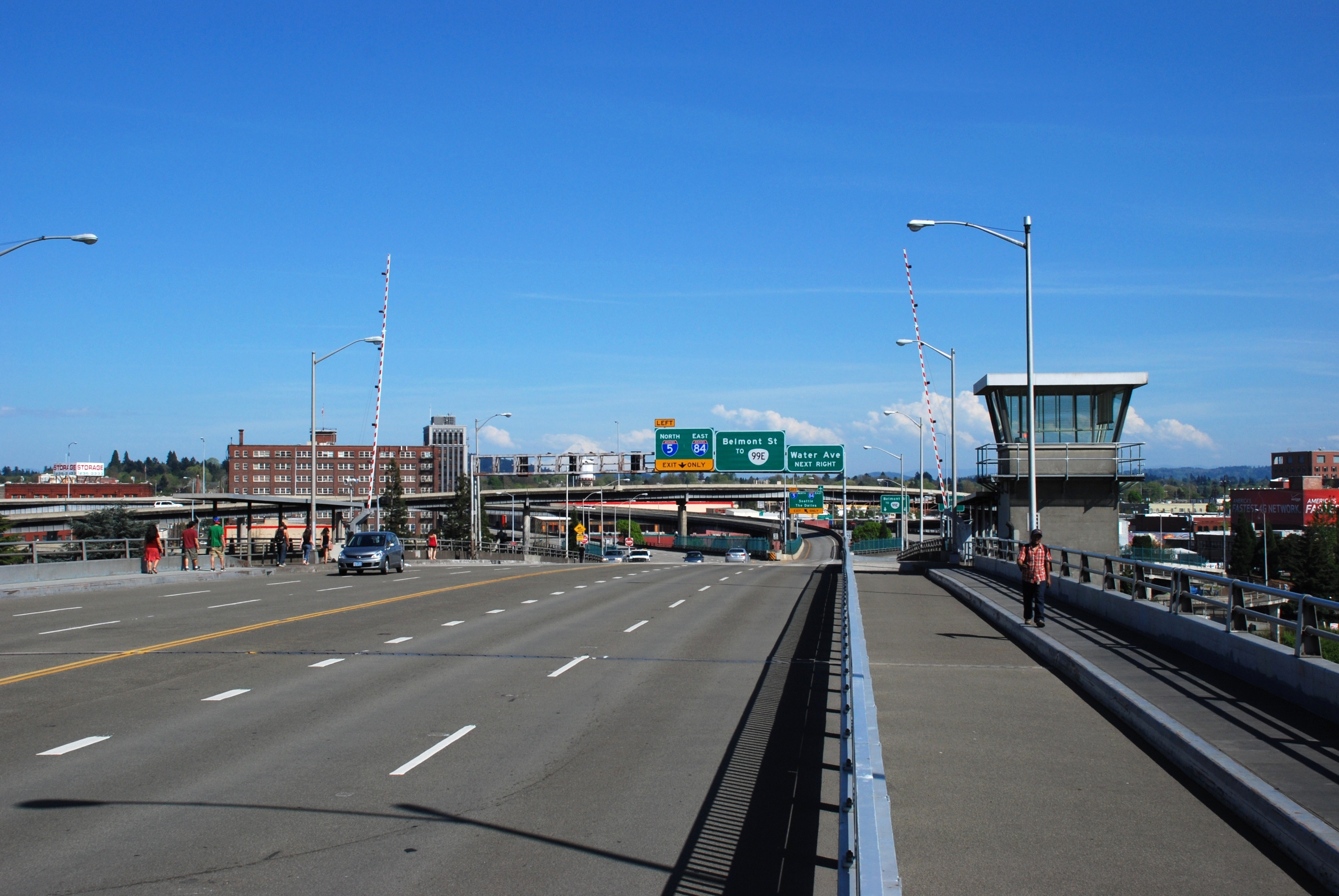 Roadway view of the Morrison Bridge (built in 1958) from the south sidewalk, looking east from the lift span. At right is the east bridge-tender tower, which is unused, the controls for the lift mechanism being housed in the west tower. Photo was taken shortly after the bridge reopened at the end of work that included replacing the open metal grating on the lift section with a solid deck paved with asphalt.